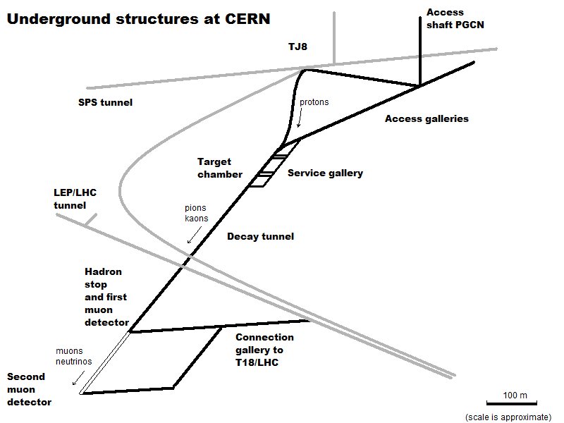 by S Marshall, after [1], for use in Wikipedia articles about CNGS and the Opera Neutrino Anomaly